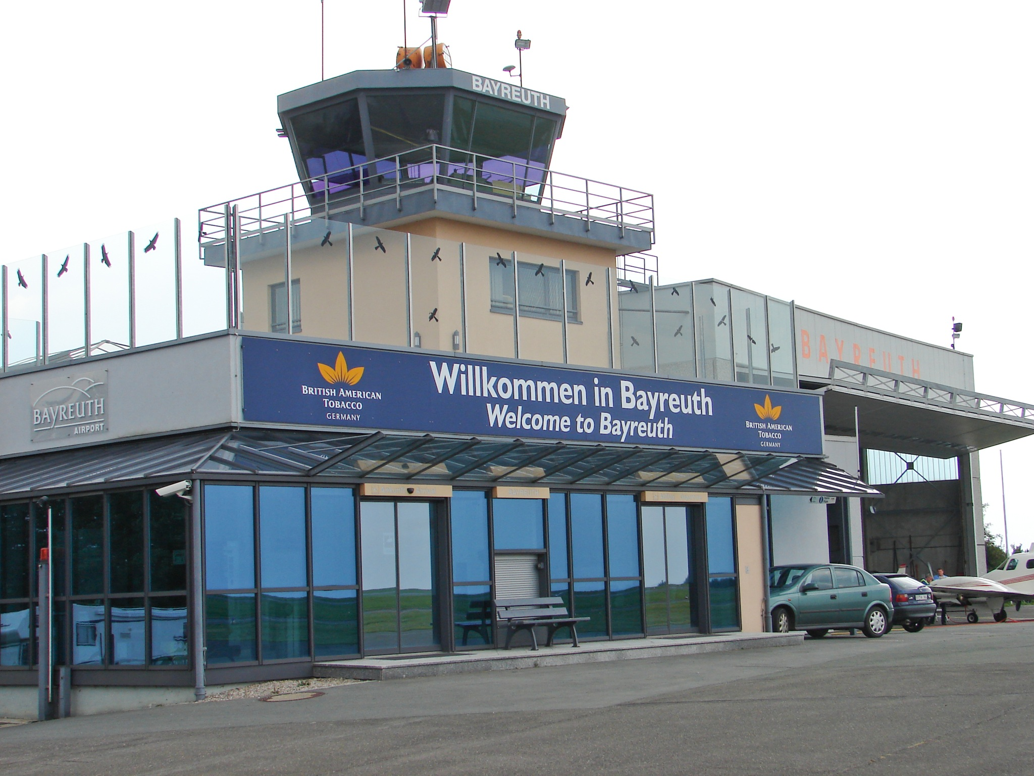 Tower and entrance of Bindlacher Berg Airport